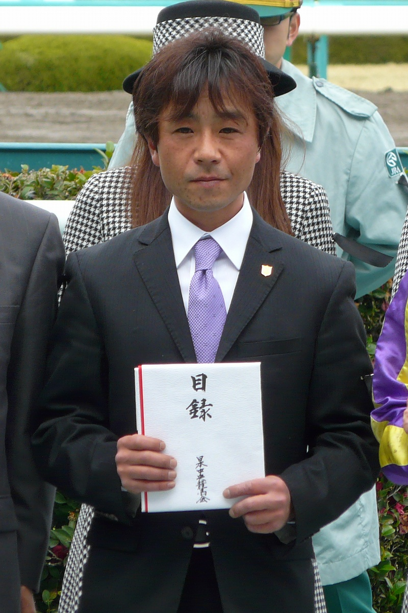 Takanori-Kikuzawa20110321